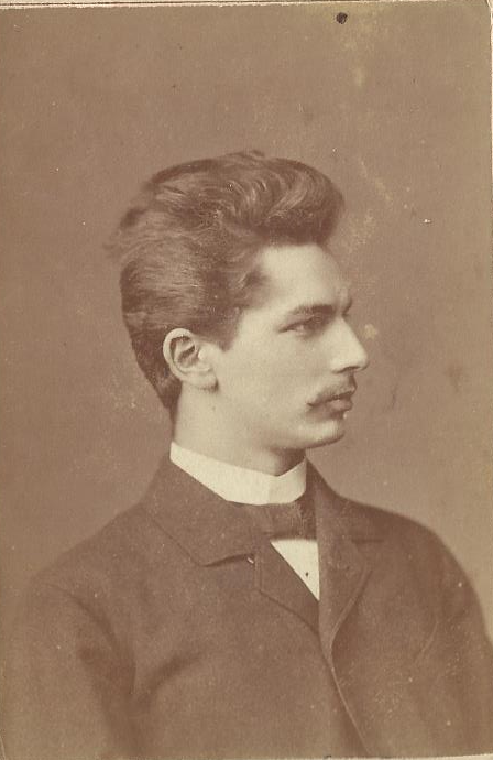 Carl Caro, German writer